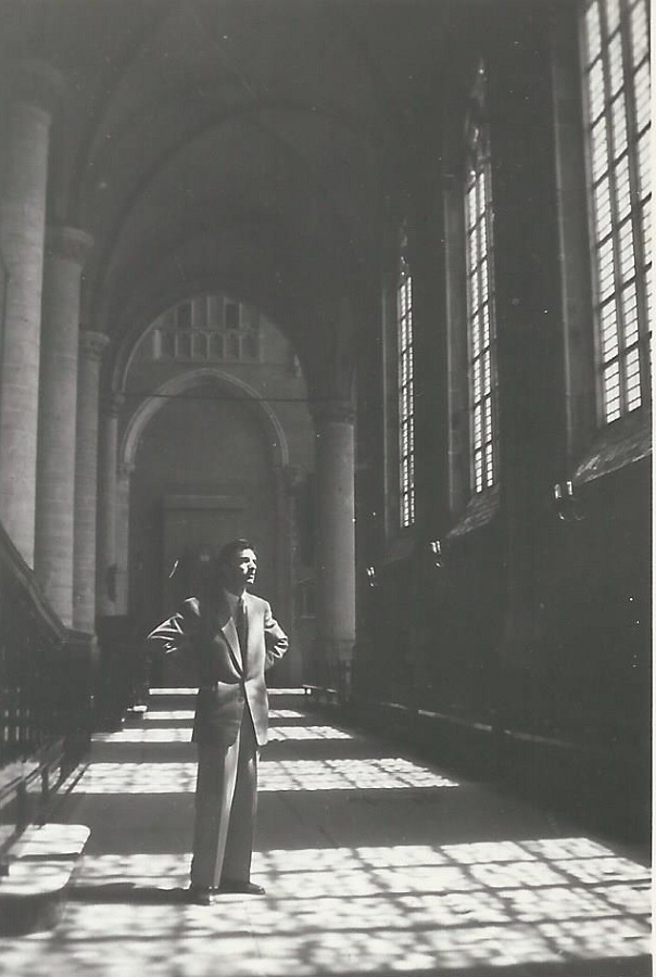 Jean-Michel Coulon in St Peter Church (Leiden, 1950)